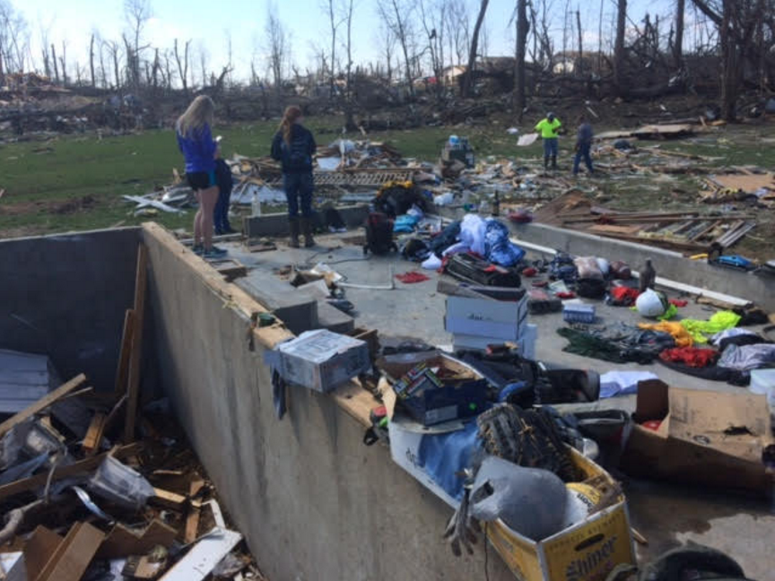 EF4 damage to a home in Perryville, MO. The occupants of this home survived by taking shelter in the basement.